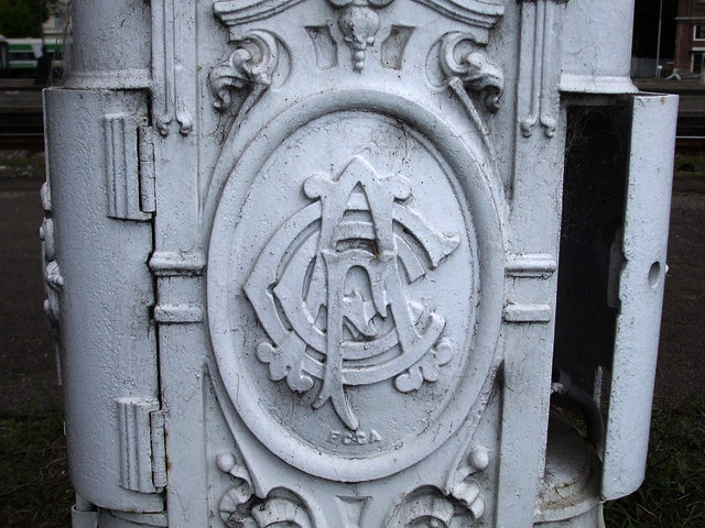 Central Argentine Railway